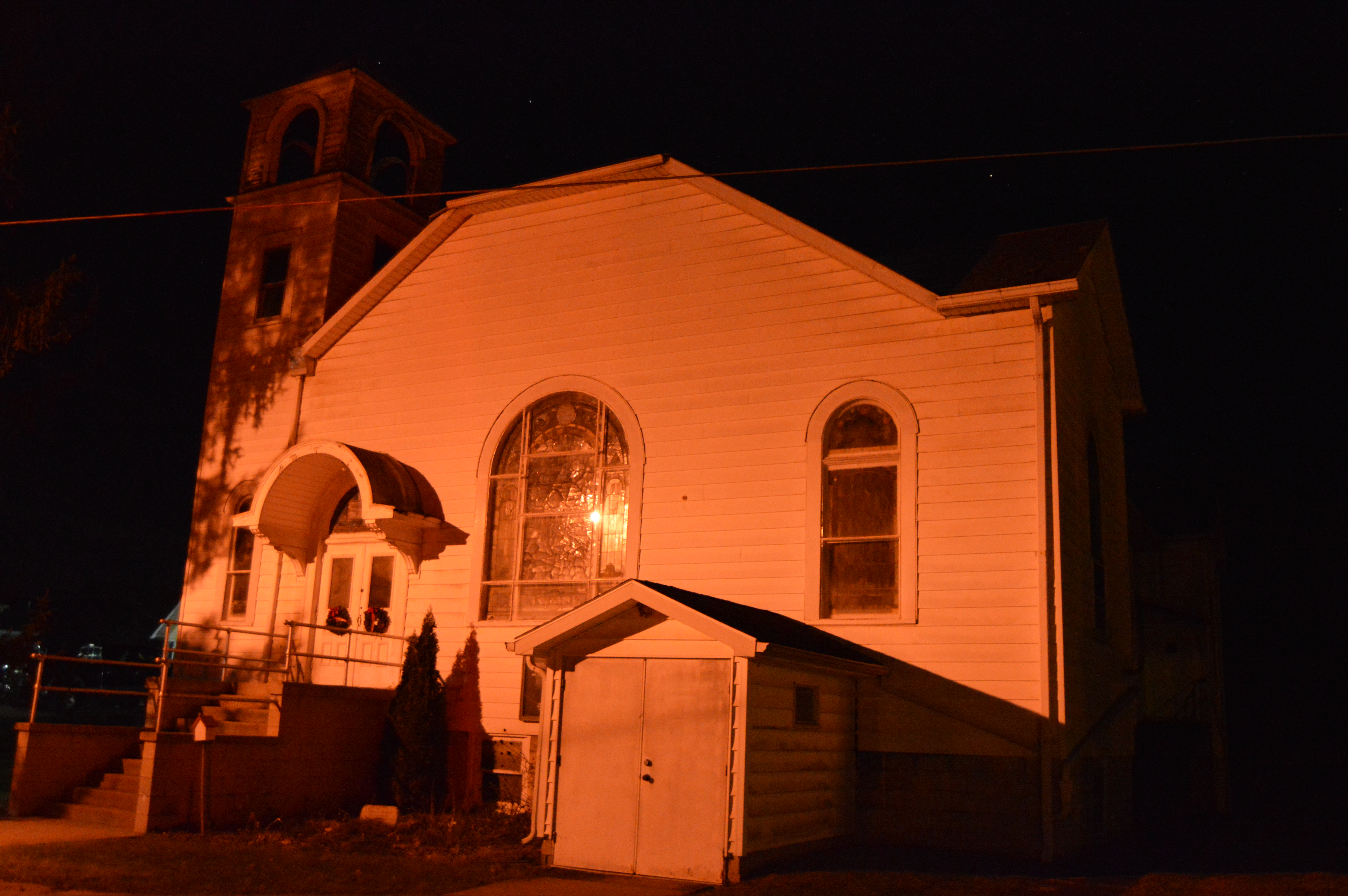 Front of the Dexter City United Methodist Church, located at the intersection of Main and Smithson Streets in Dexter City, Ohio, United States.